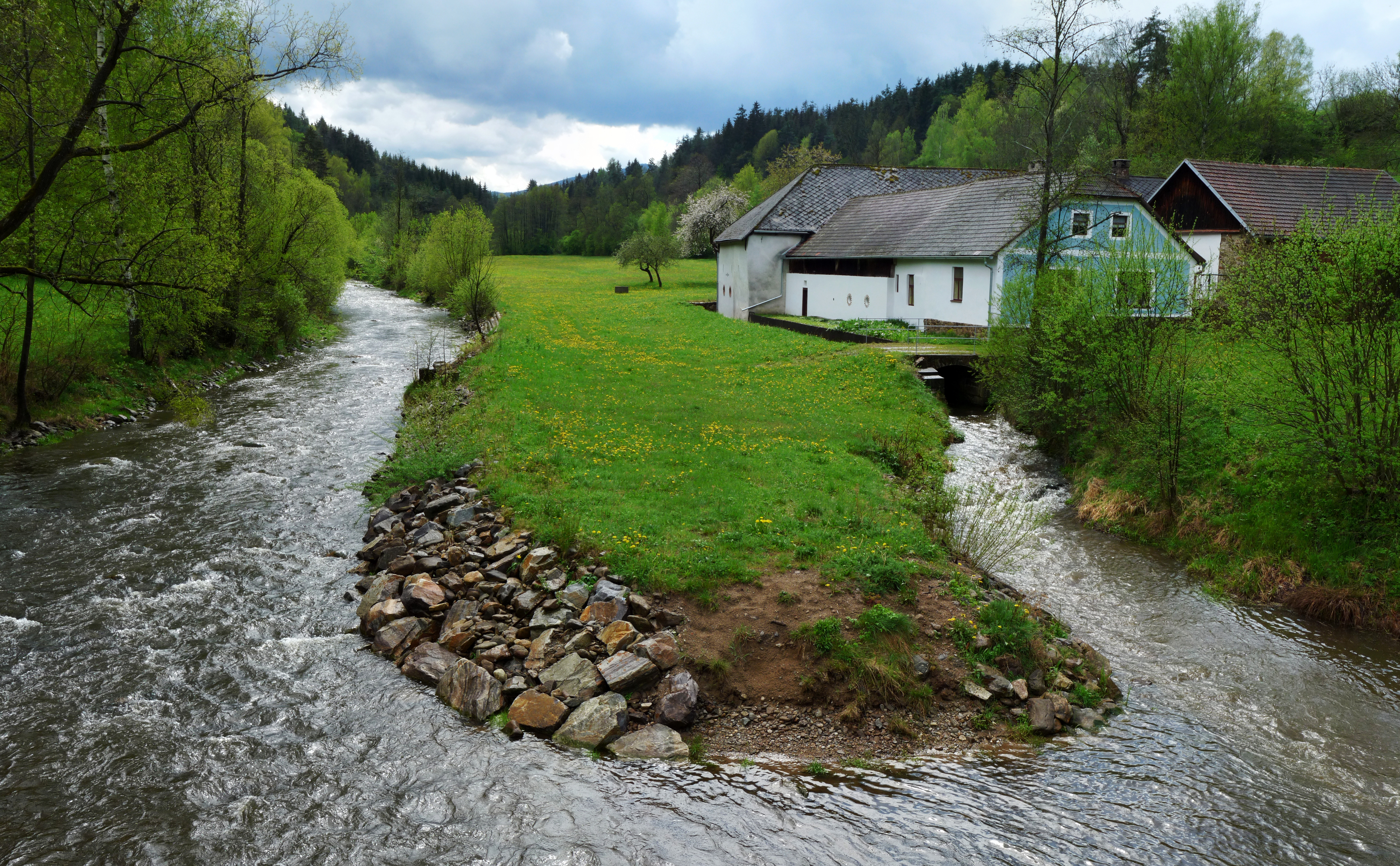 House No 31, a former mill in the village of Zábrdí, Prachatice District, South Bohemian Region, Czech Republic.